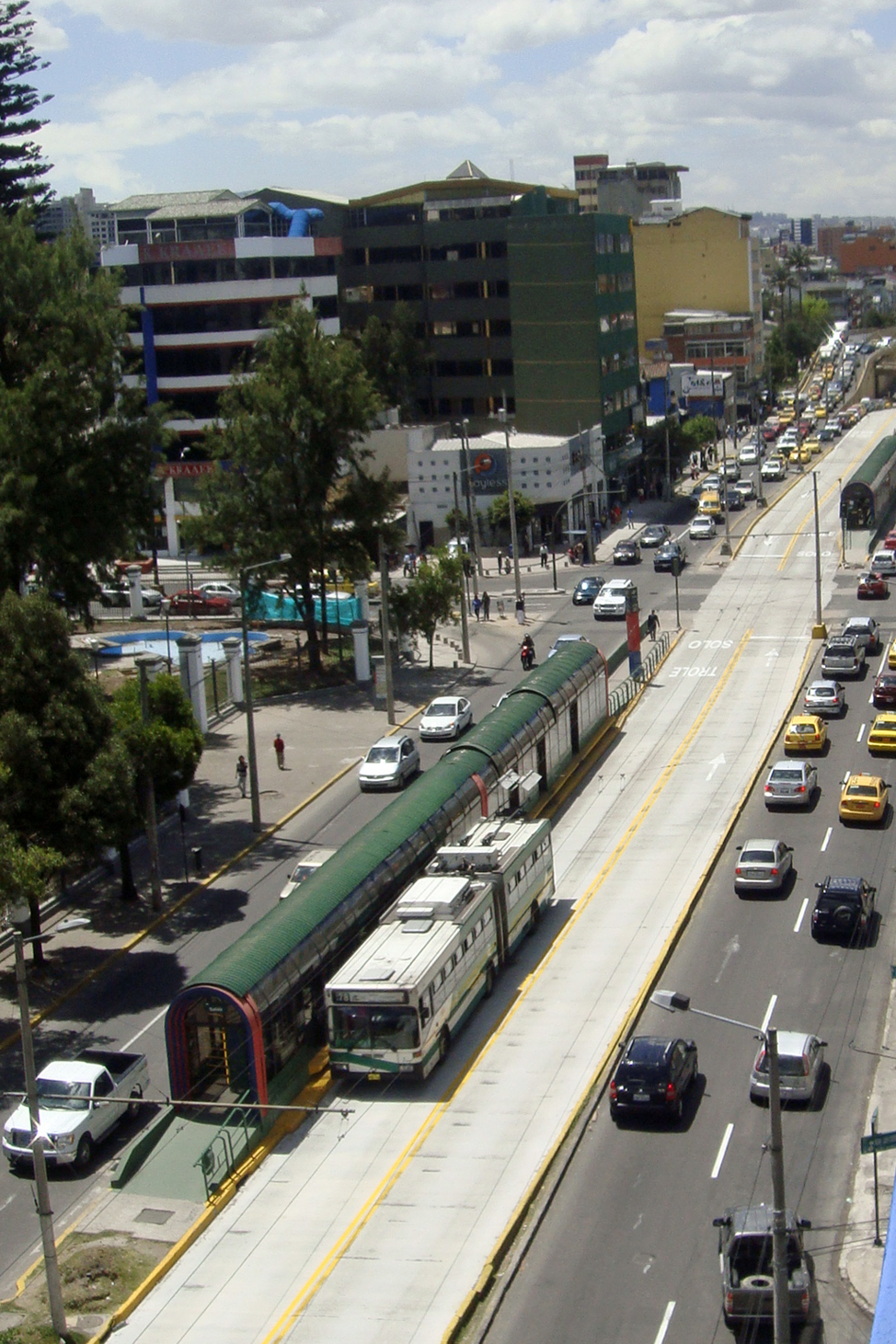 Quito's Trolleybus BRT system